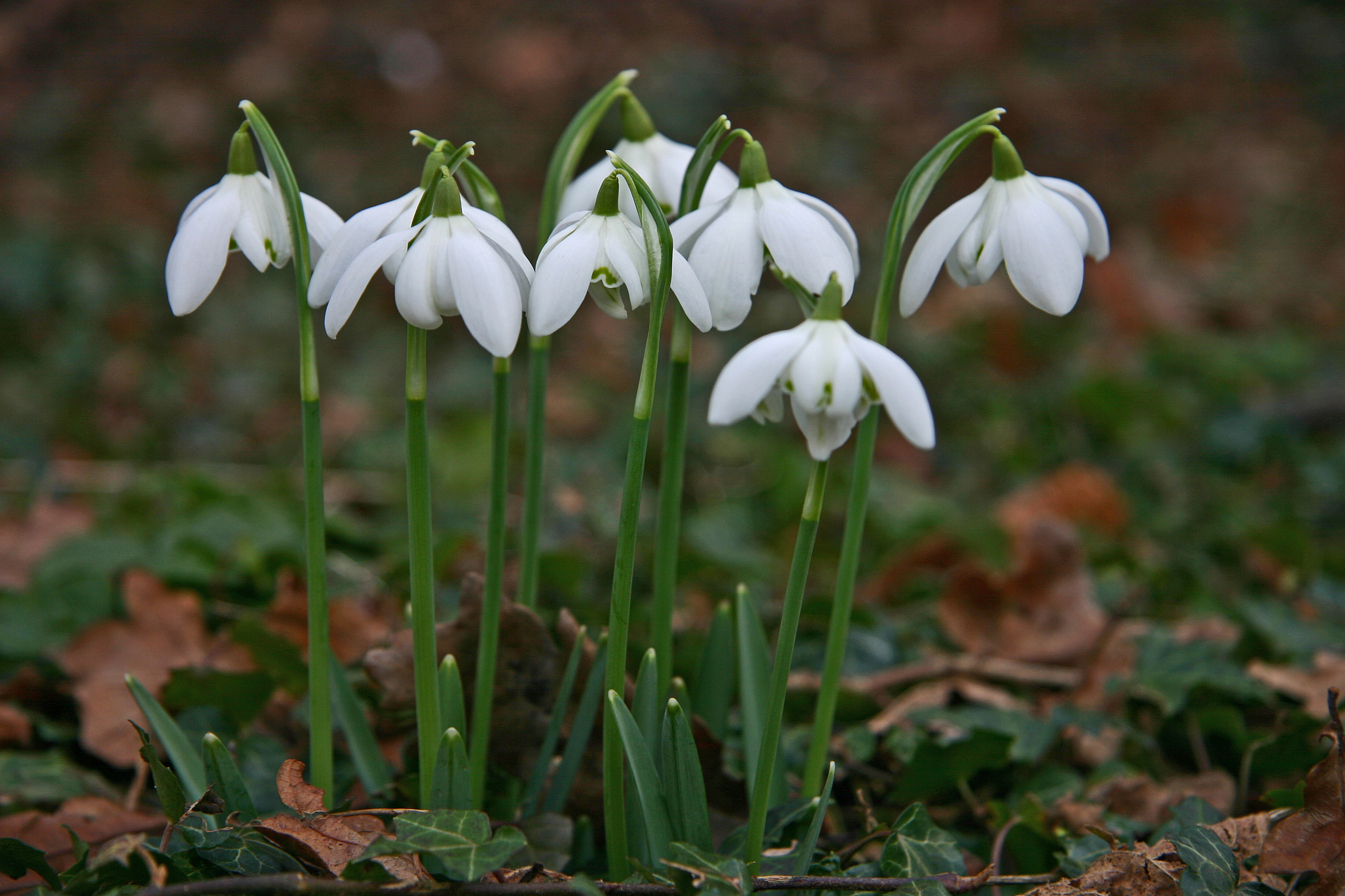 A group of double-flowered snowdrops (Galanthus nivalis f. pleniflorus 'Flore Pleno') growing in the grounds of Brodsworth Hall, Doncaster, UK.